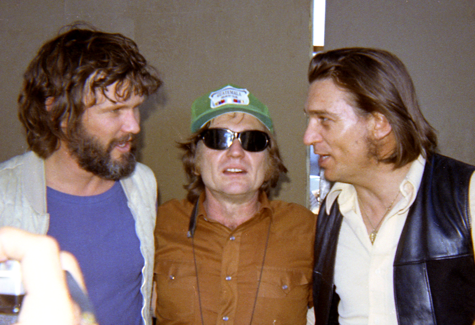 Kris Kristofferson, Willie Nelson, Waylon Jennings at Dripping Springs reunion, that later became Willie Nelson's 4th of July picnic.